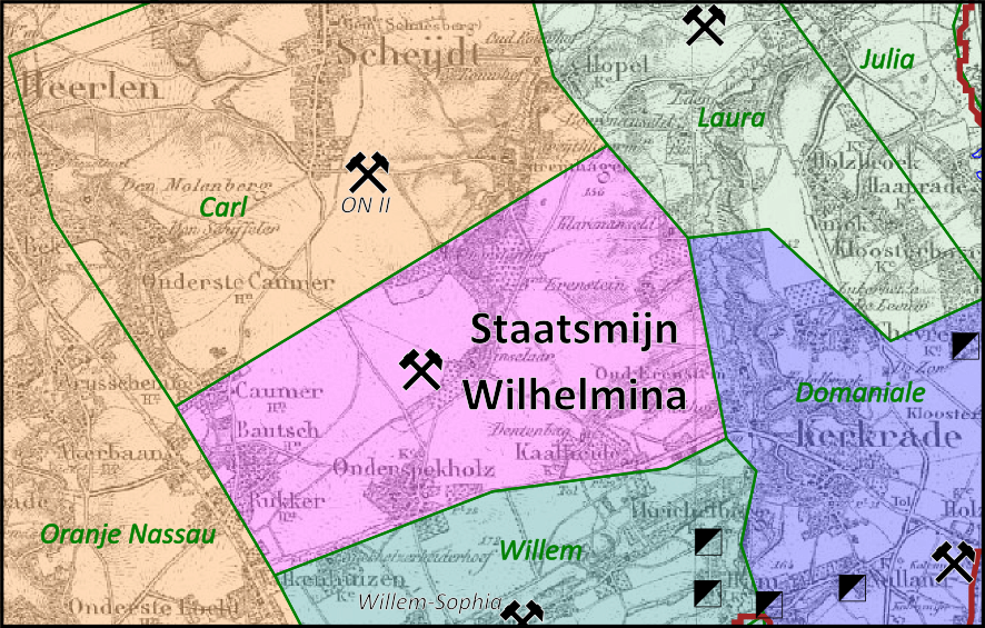 Map of mining permit area of Wilhelmina coal mine, Limburg, The Netherlands